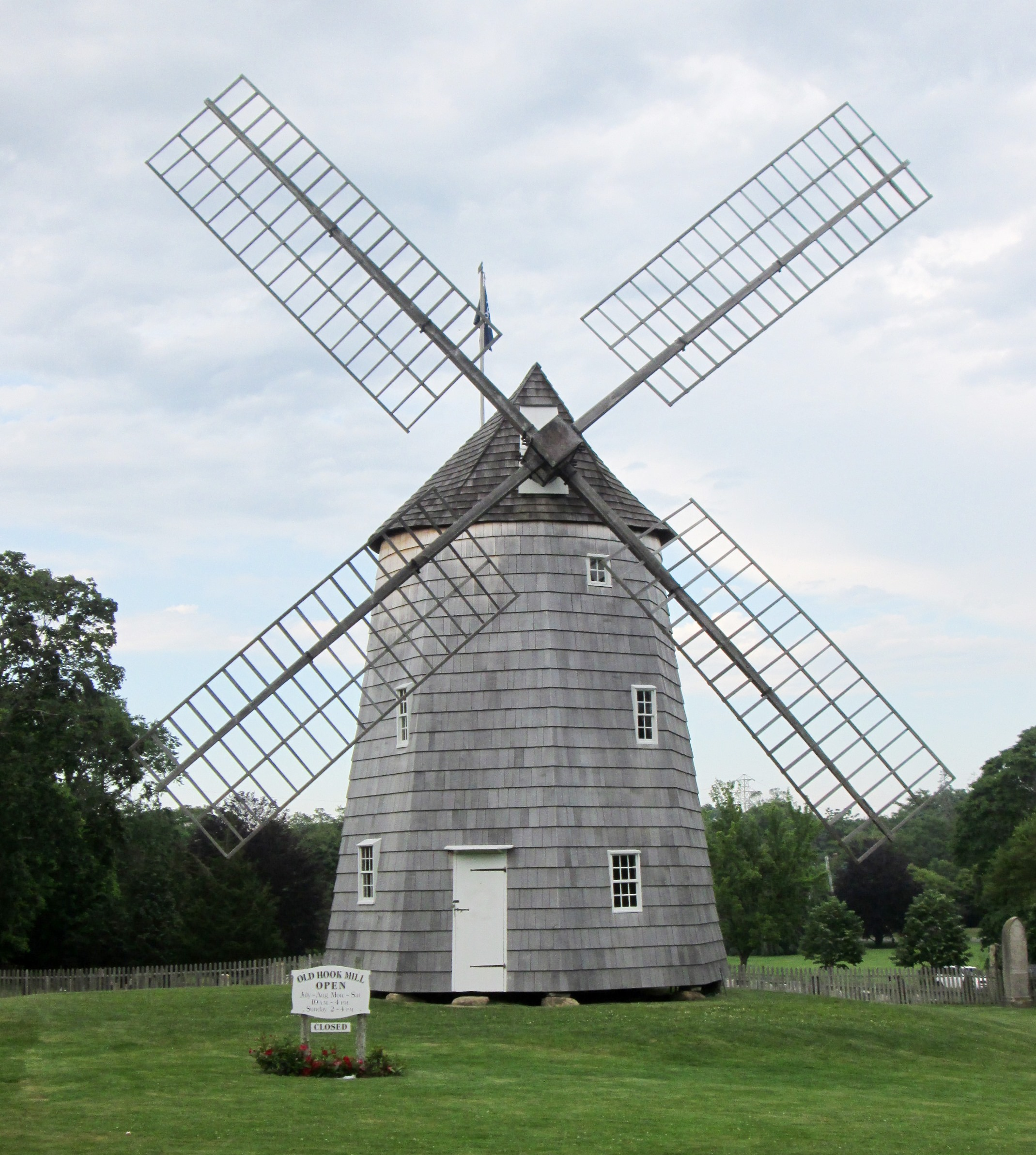 Hook Wimdmill is a historic windmill on North Main Street in East Hampton, New York. It was built in 1806 and operated regularly until 1908. One of the most complete of the extant windmills on Long Island, New York, in 1922 the windmill was sold to the town of East Hampton. The building was added to the National Register of Historic Places in 1978.